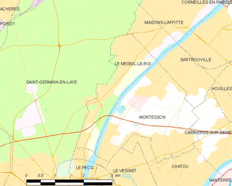 Map of French municipality Le Mesnil-le-Roi